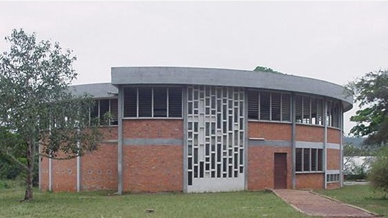 CHAPEL